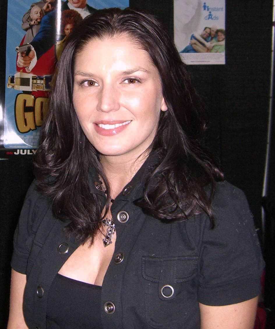 Model/actress/dancer/stuntwoman Nina Kaczorowski at the Big Apple Convention in Manhattan. Photographed by Luigi Novi. This photo may only be used if the photographer is properly credited. (See Licensing information below.)